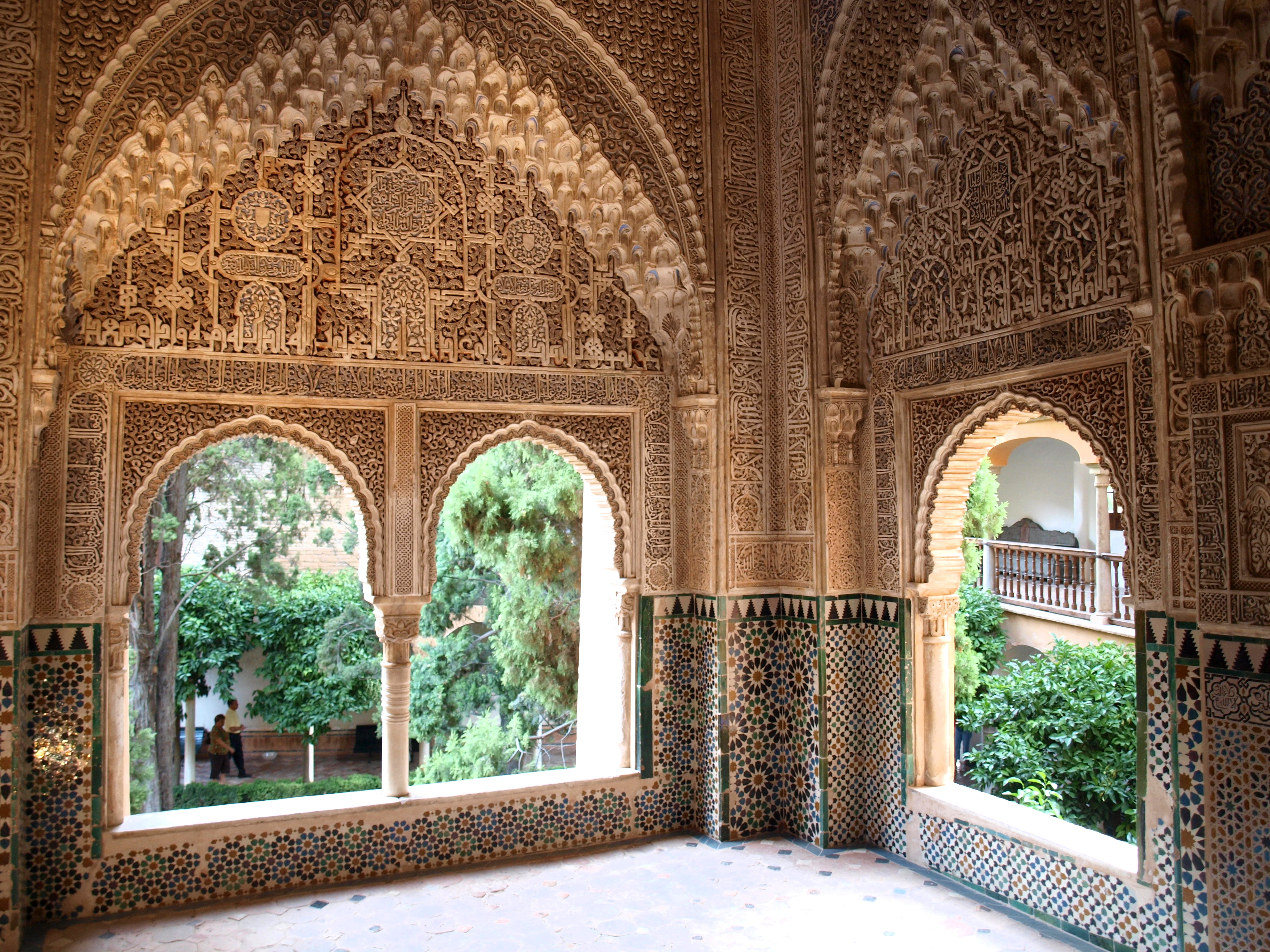 Lindaraxa balcony, the Liones Palace, Alhambra, Granada